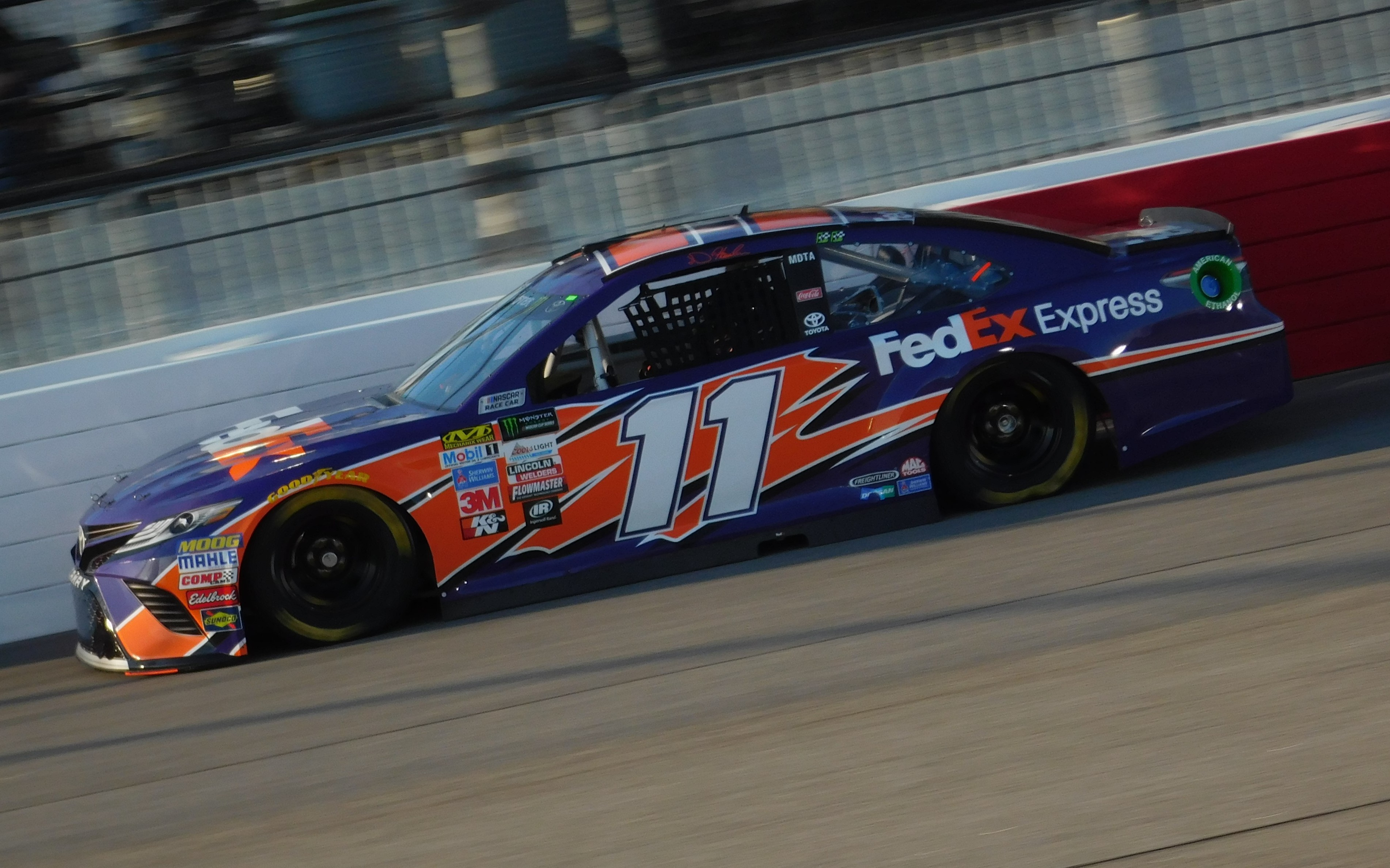 Denny Hamlin's No. 11 FedEx Express Toyota at Richmond Raceway in 2017